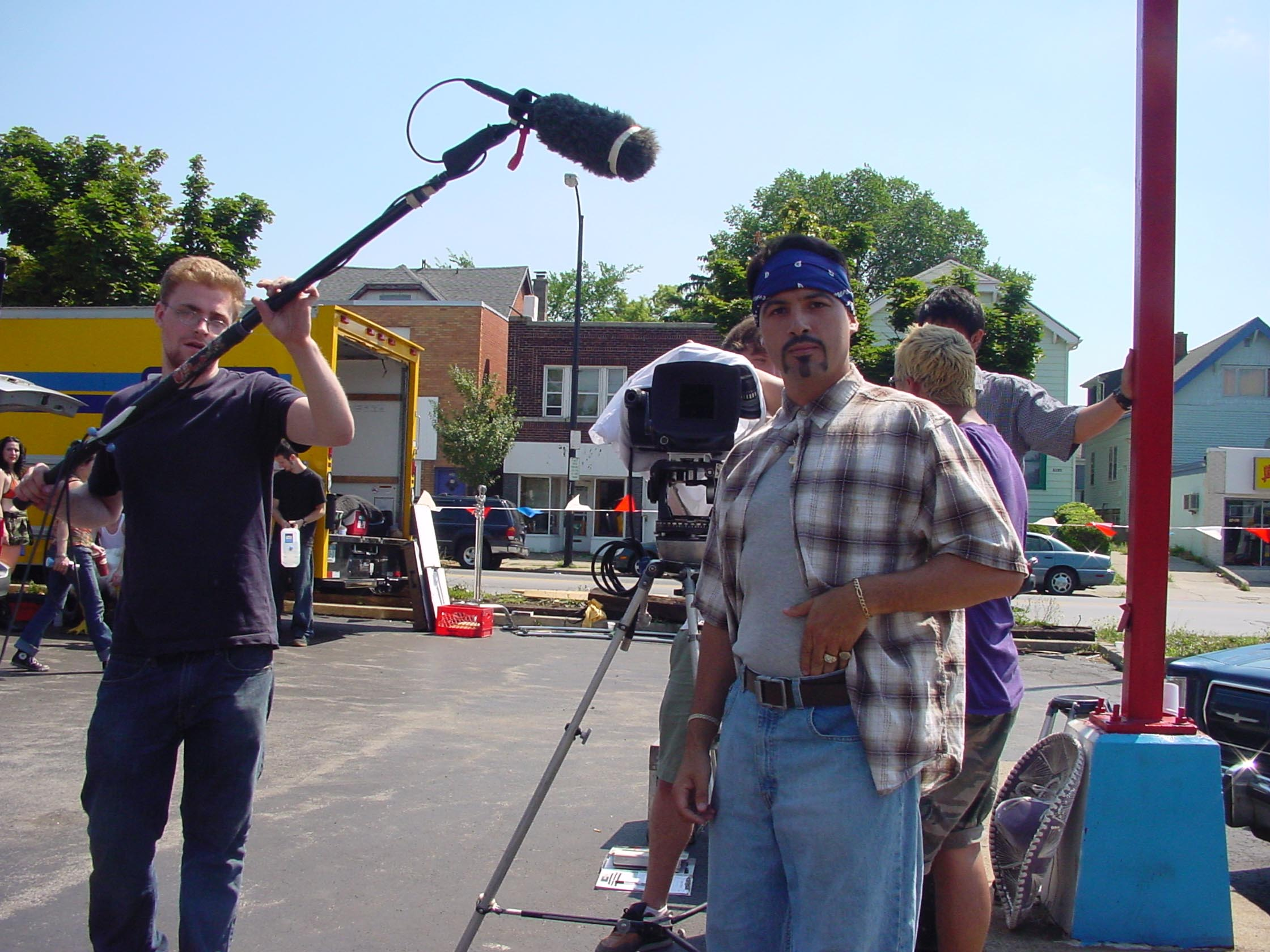 A.J. Verel on the Set filming a movie for Troma